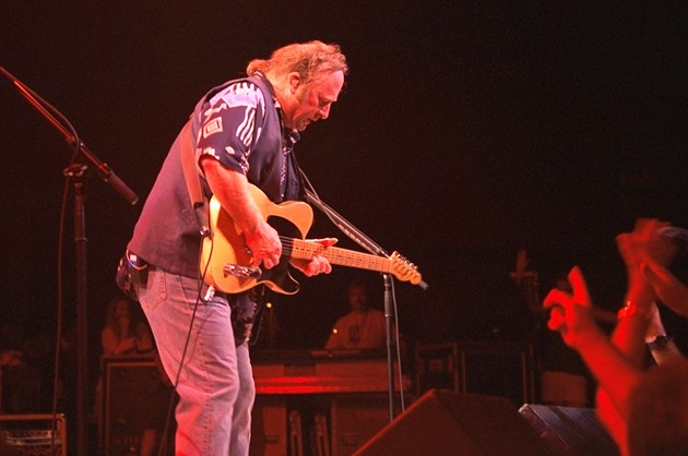 Stephen Stills performing in 2006